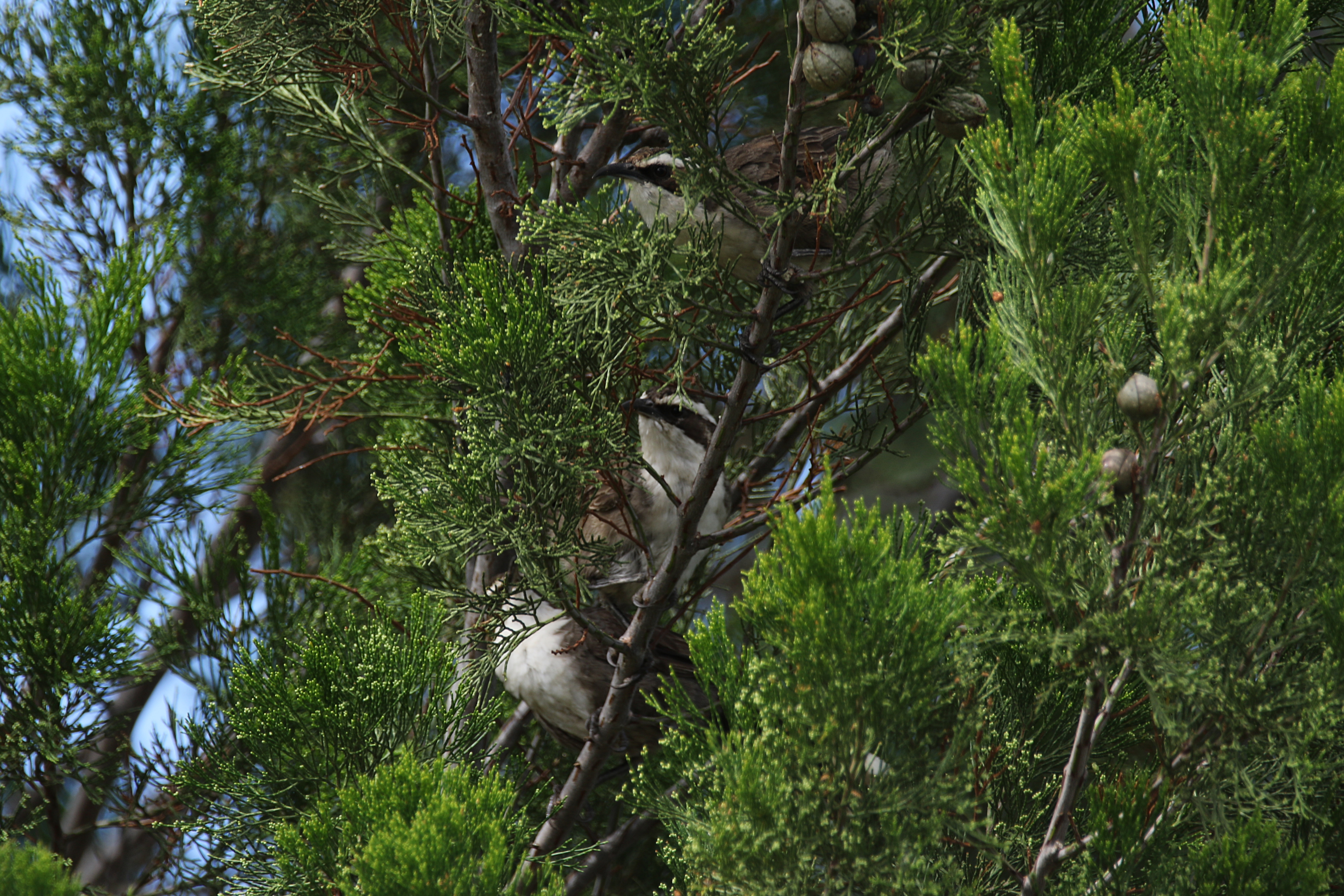 Pomatostomus superciliosus (Vigors & Horsfield, 1827), White-browed Babbler, Wyperfeld National Park, VIC, 24 January 2017